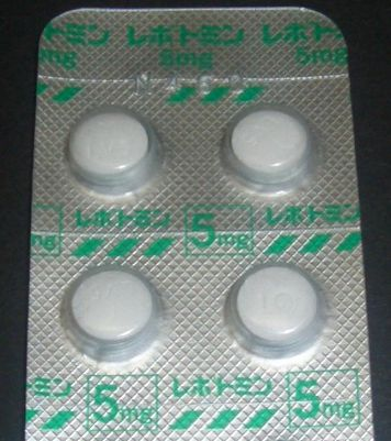 Levotomin 5mg